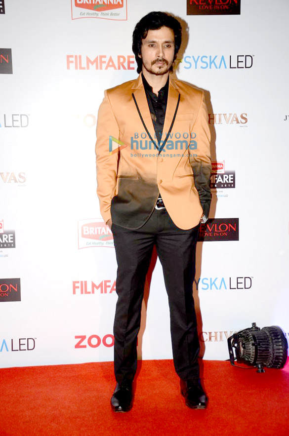 Darshan Kumaar at 61st Filmfare Awards